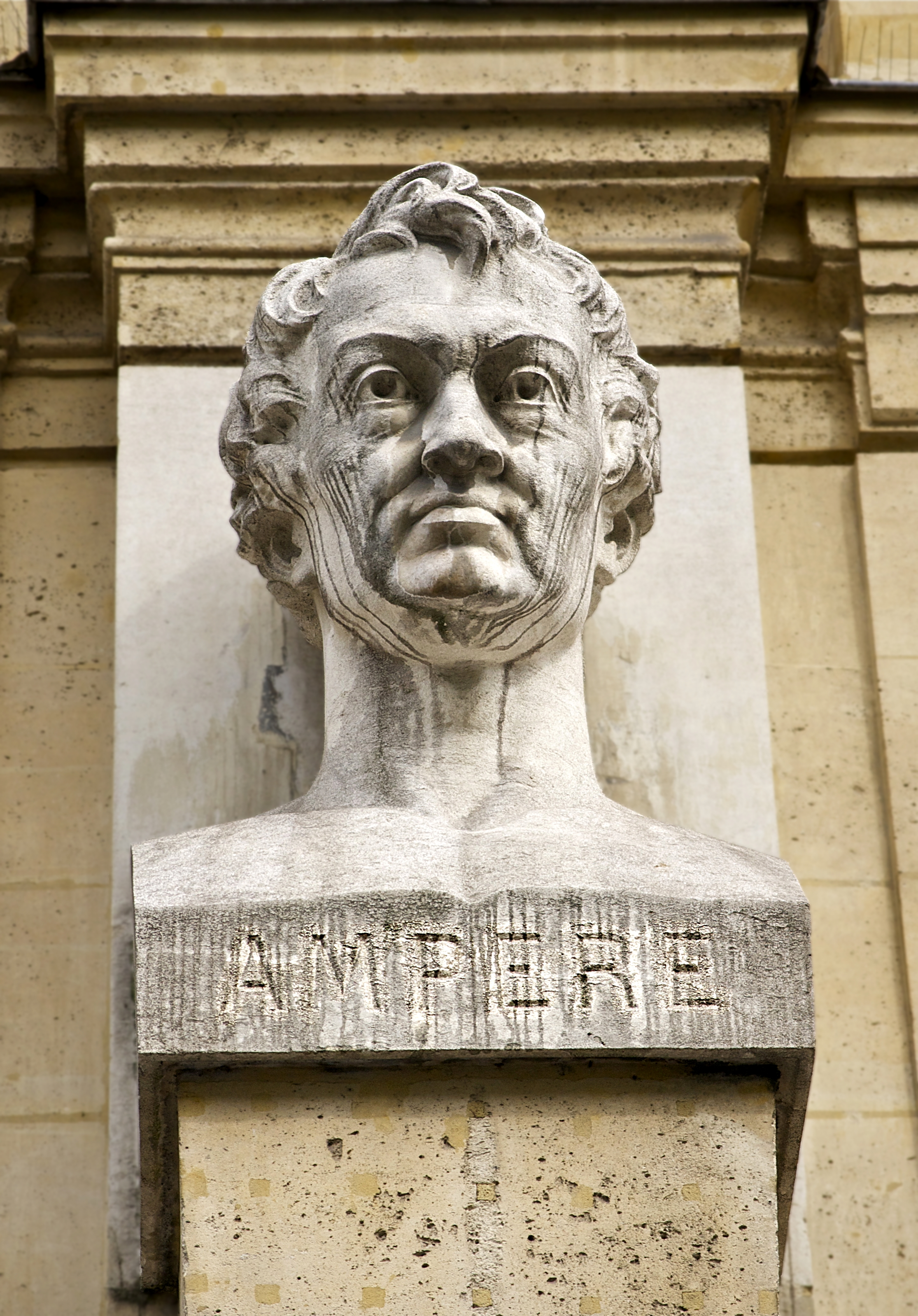 Bust of André-Marie Ampère, Lycée Voltaire, Paris